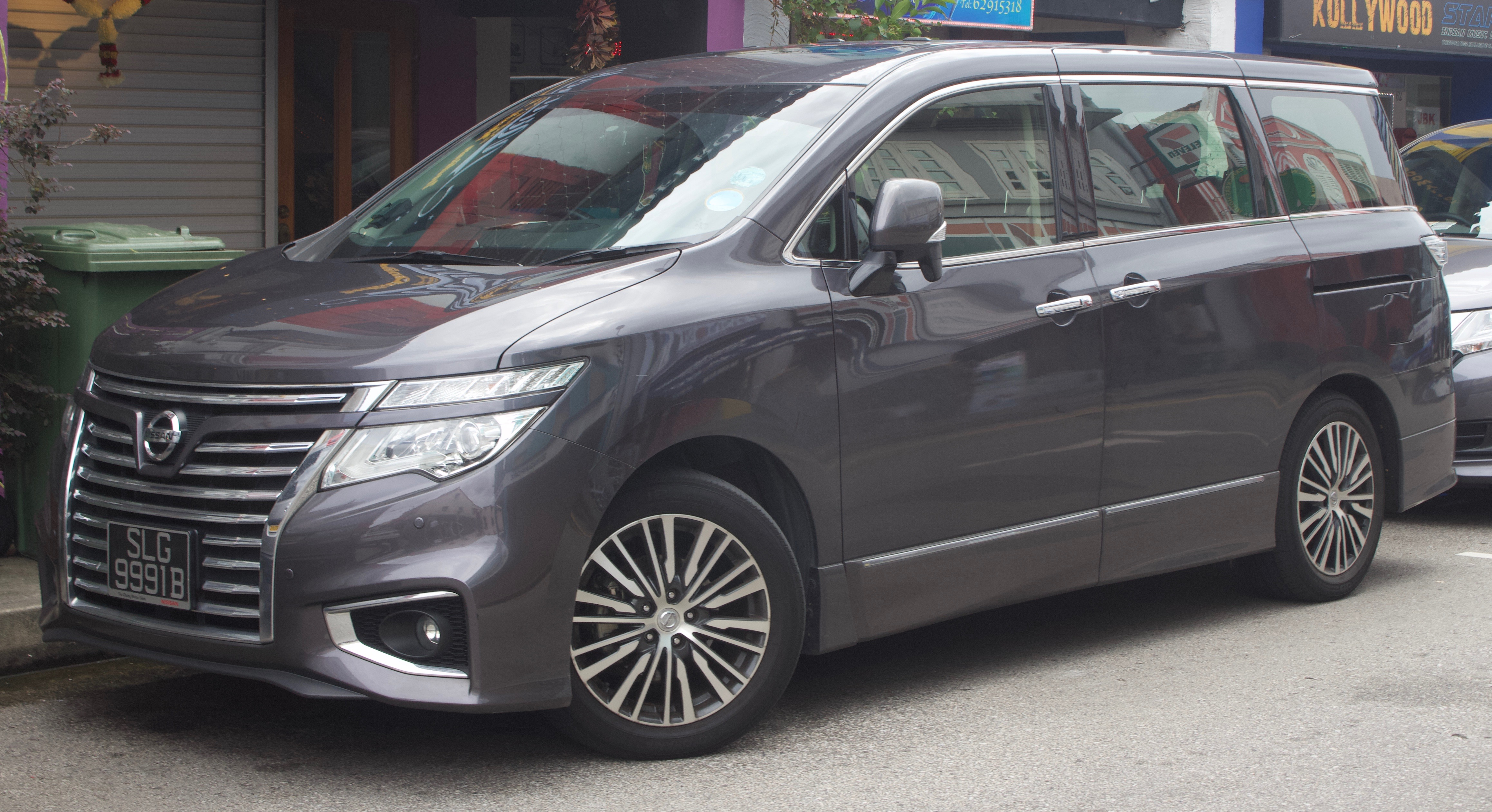 2014-2017 Nissan Elgrand (E52) 2.5 Highway Star van. Photographed in Singapore.